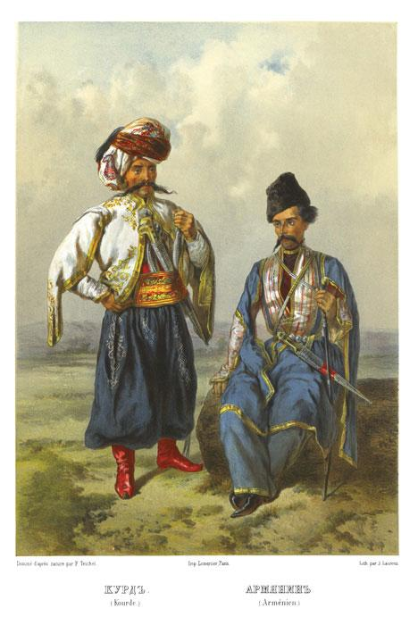 Kurdish, Armenia people